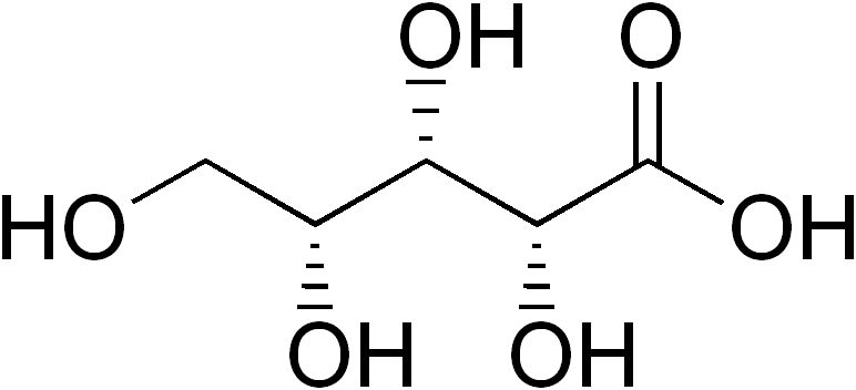 chemical structure of D-xylonic acid; lyxonic acid; xylonate